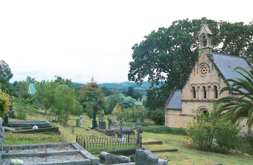 The small chapel in Belvedere, close to Knysna on the Garden Route in South Africa.